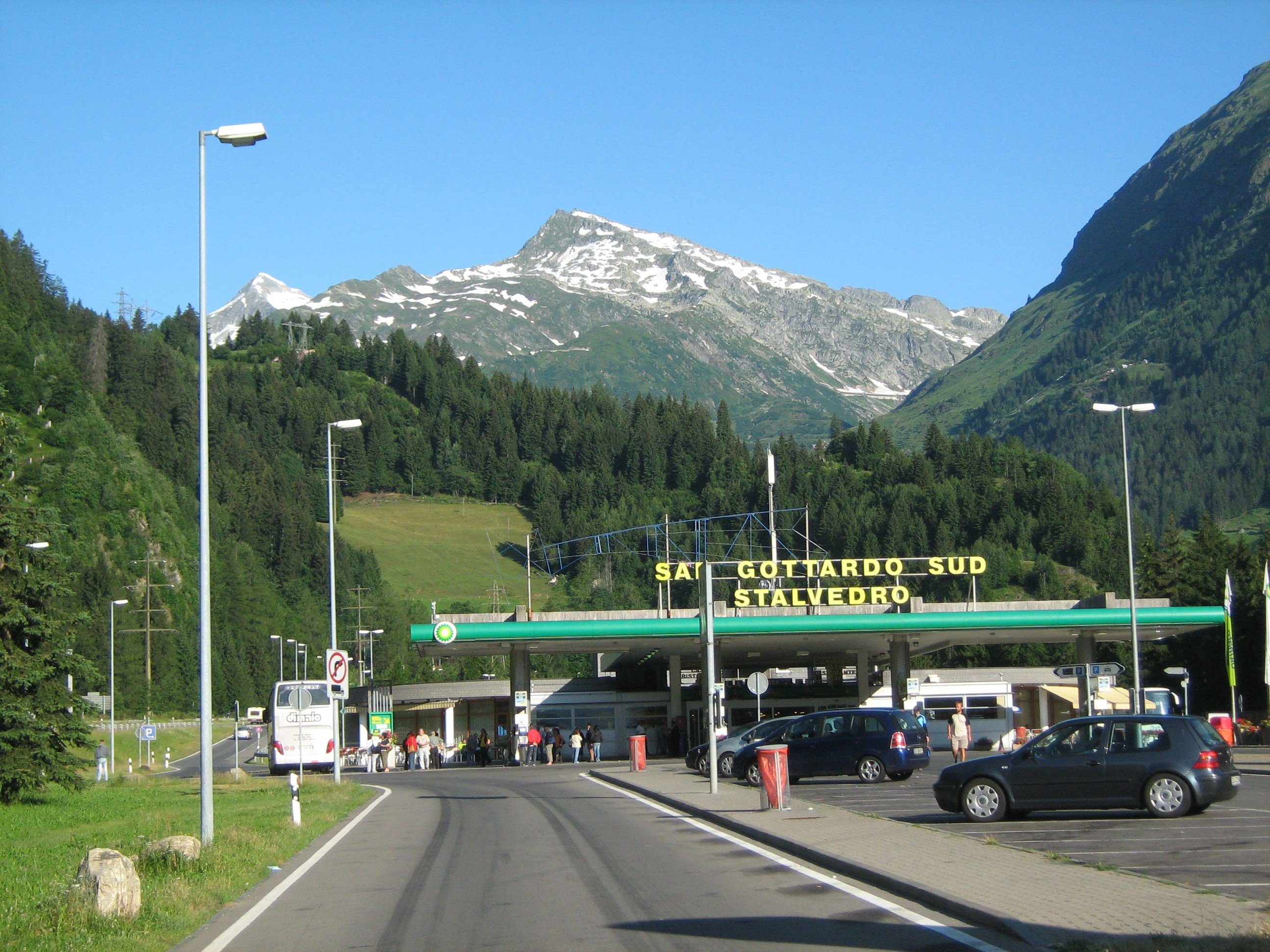 The rest area 'San Gottardo Sud Stalvedro' just before the southern entrance to the St. Gottard-tunnel near the village Airolo in Swizerland. July 5, 2009.